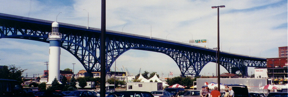 Main Avenue Bridge, Cleveland, Ohio, from the east